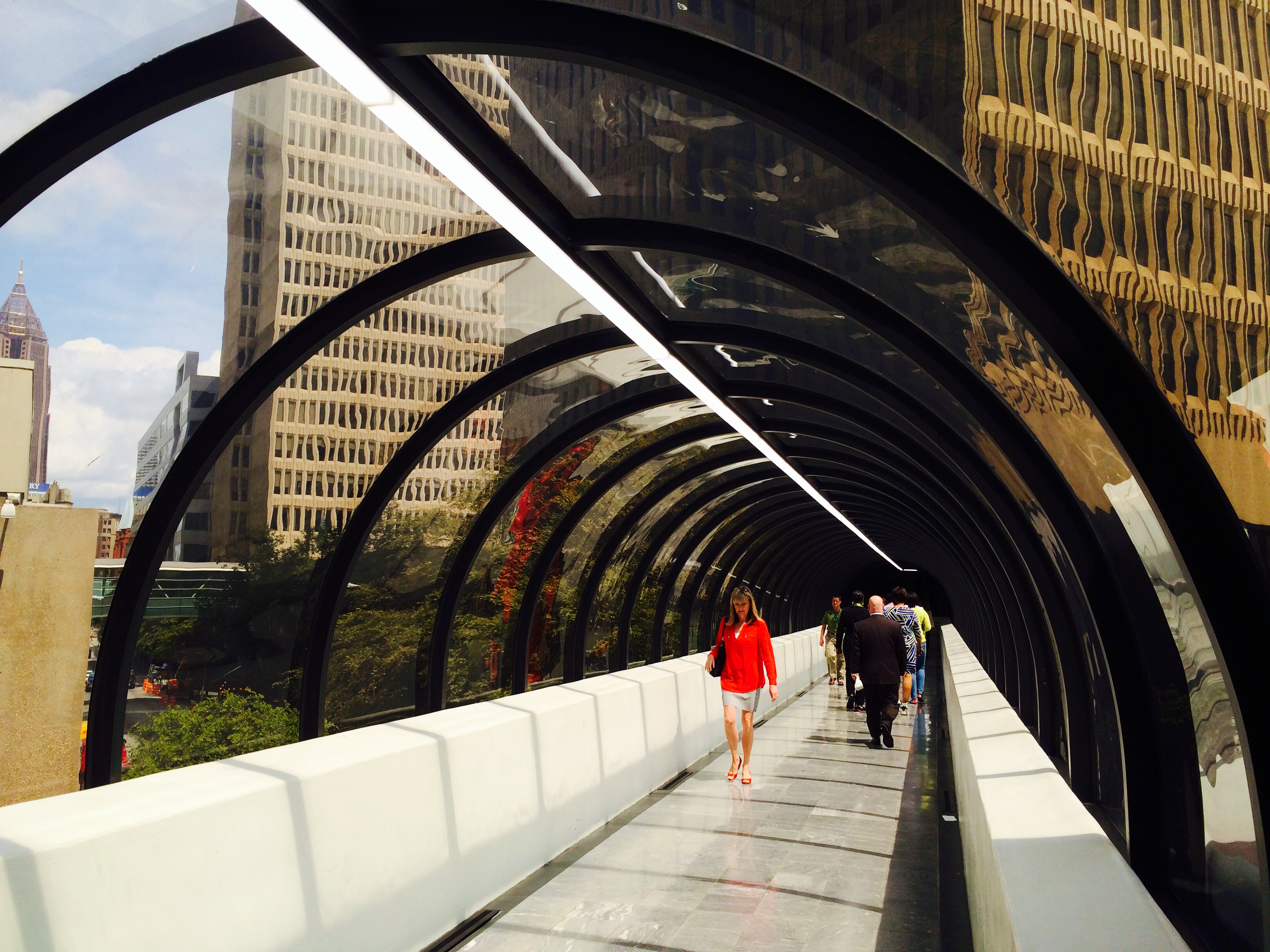 The Skywalk